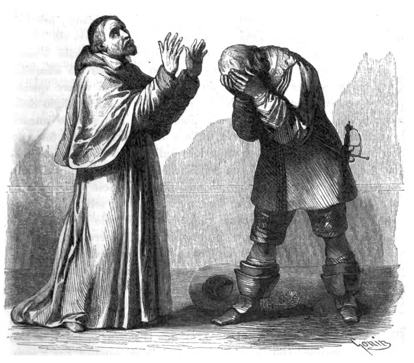 Picture from "I promessi sposi" of the Unnamed and Cardinal Federigo Borromeo (chapter 23)